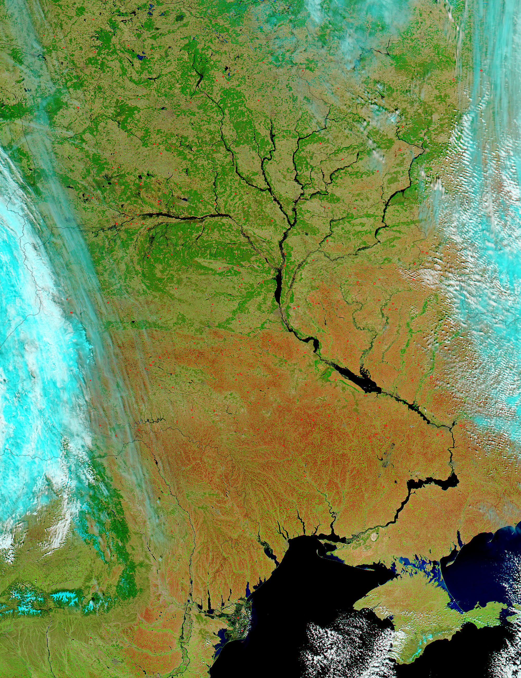 FLOODS IN BELARUS, UKRAINE, AND WESTERN RUSSIA